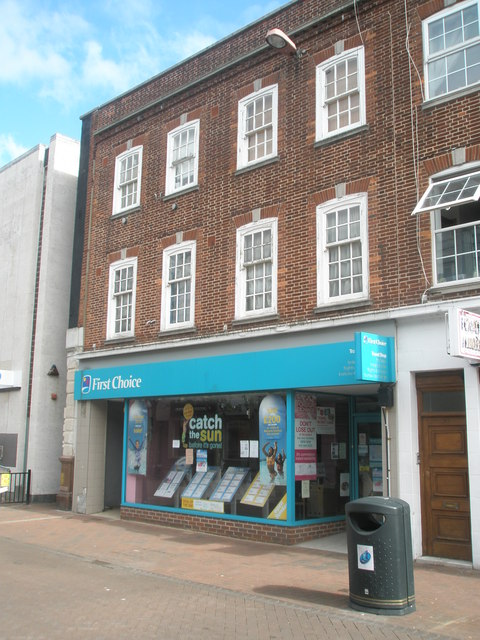 Travel agents in Gosport High Street (3)